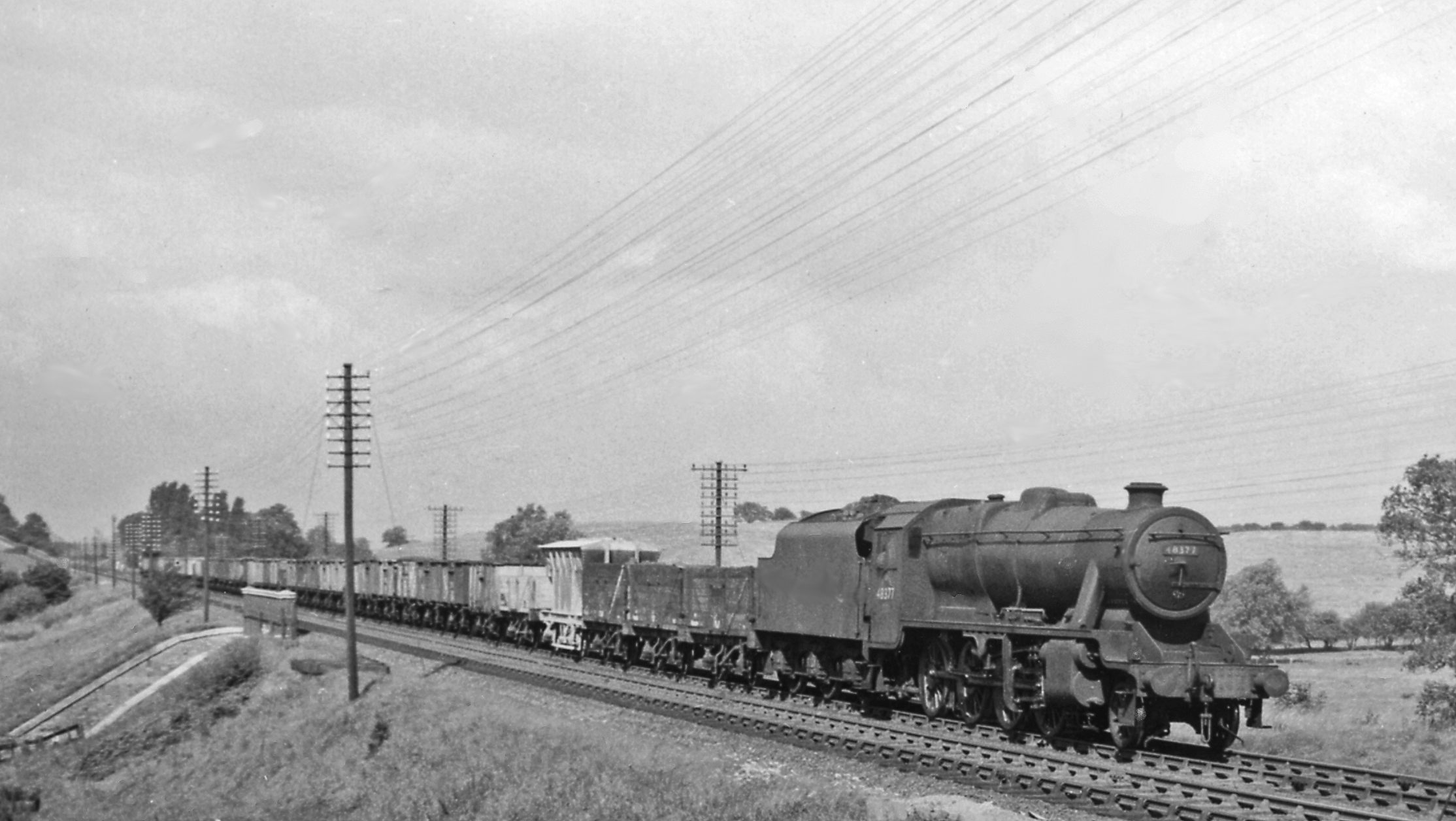 Up coal train north of Manton. View northward, towards Oakham, Melton Mowbray, Nottingham etc.: ex-Midland main line, Kettering - Nottingham section. A typical coal train from the North Midlands (probably to London) approaches Manton, headed by Stanier 8F 2-8-0 No. 48377 (built 1944, withdrawn 10/67).